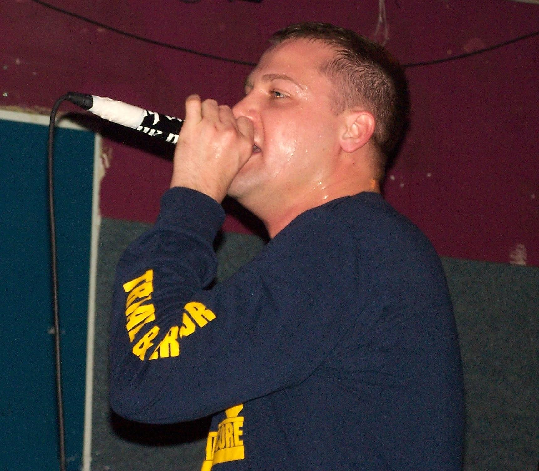 Scott Vogel of Terror Los Angeles California during concert in Berlin, 2007 January 7th